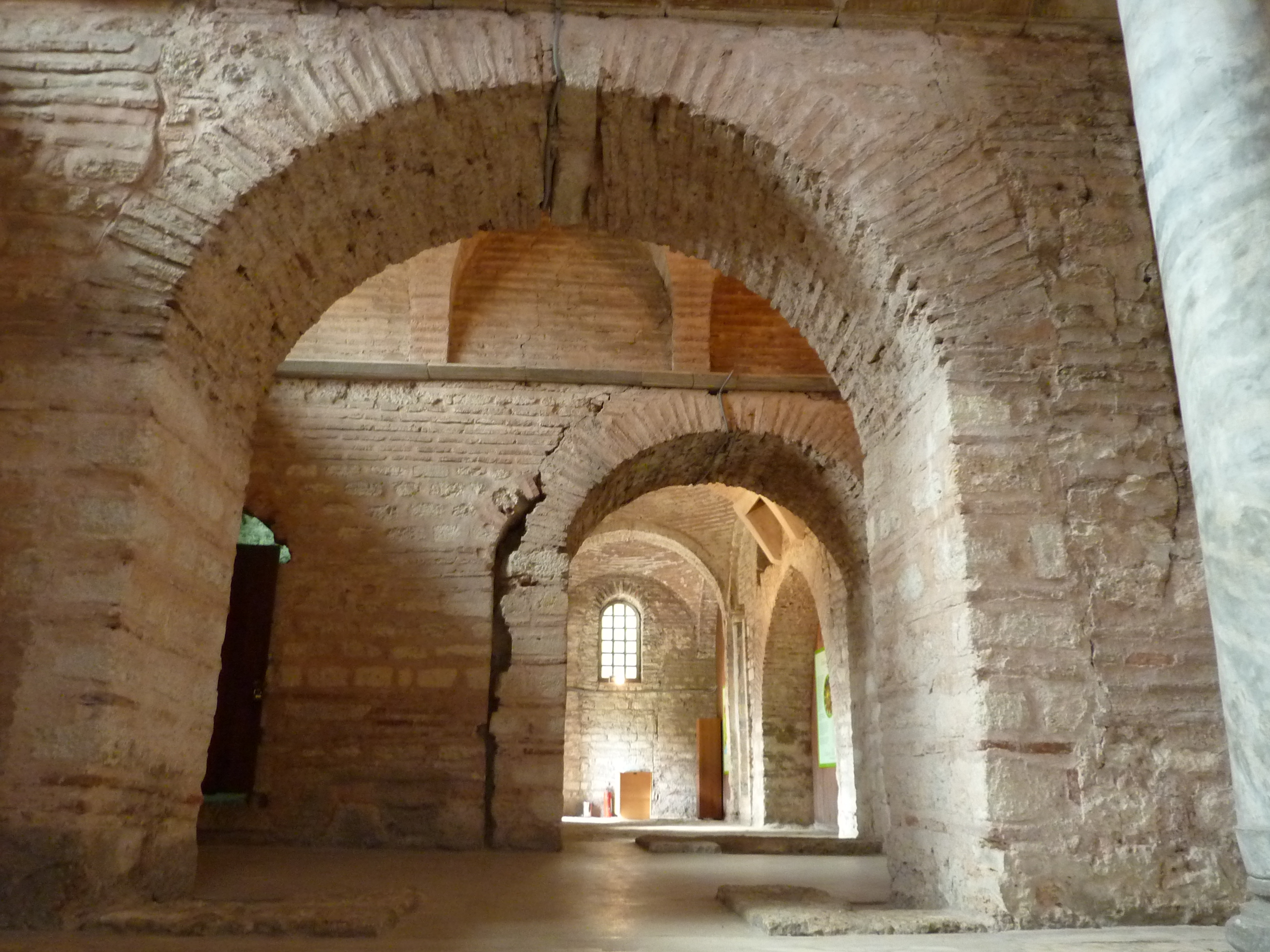 Pammakaristos Church (Fethiye Museum)